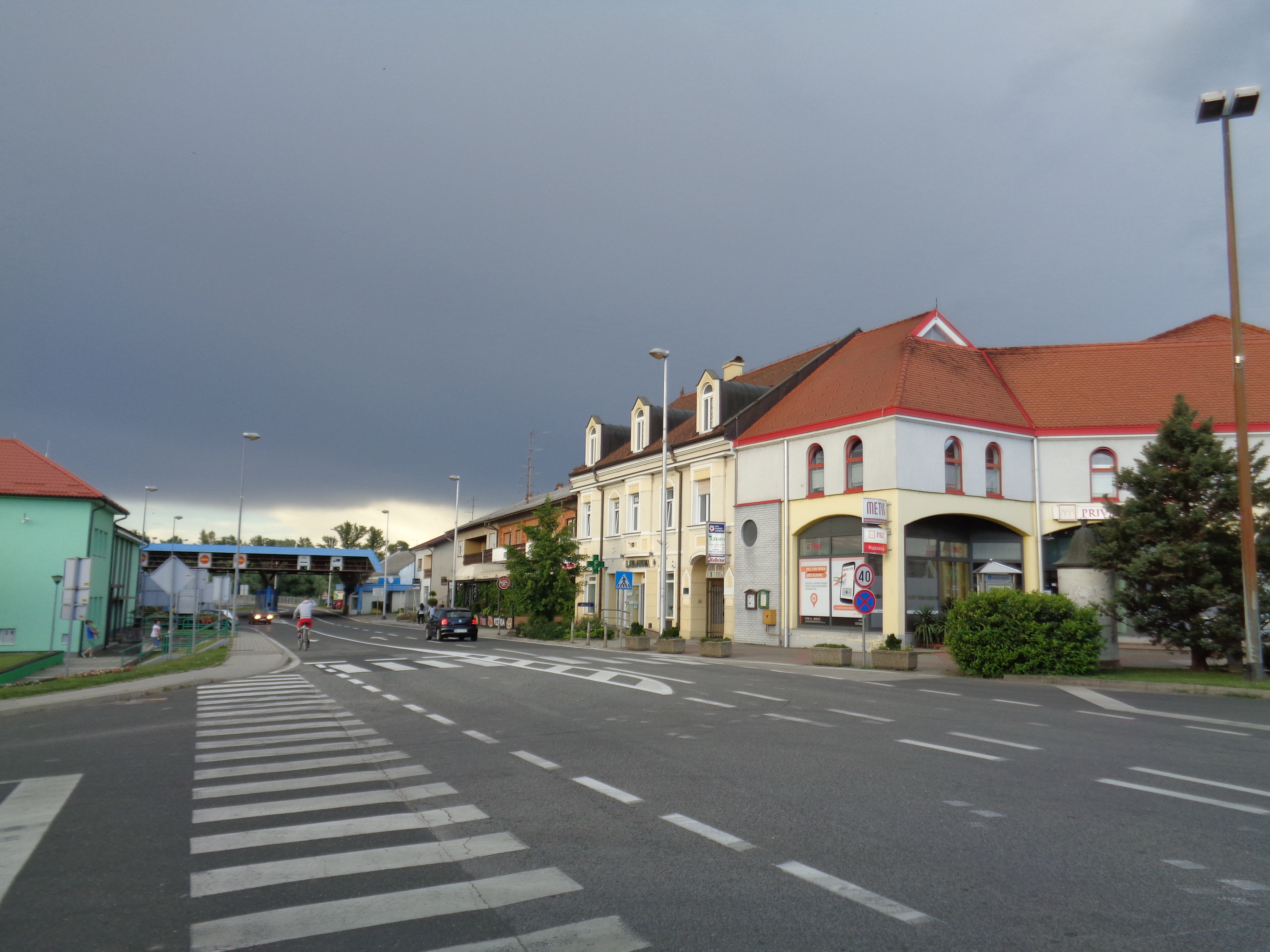 The Town of Mursko Središće, Medjimurje County, Croatia - centre